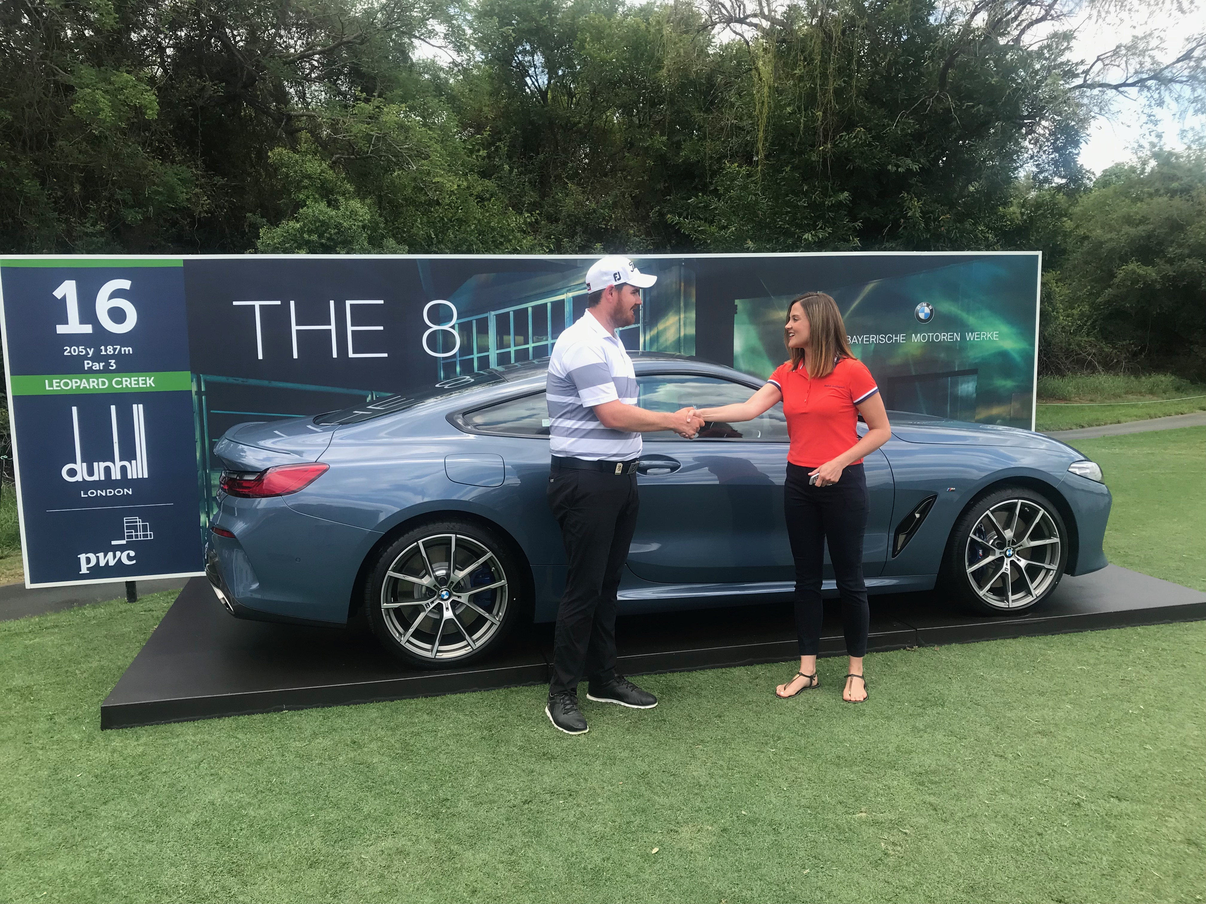 Deyen Lawson winning a BMW 850i for hole in one Dunhill Championship 2018